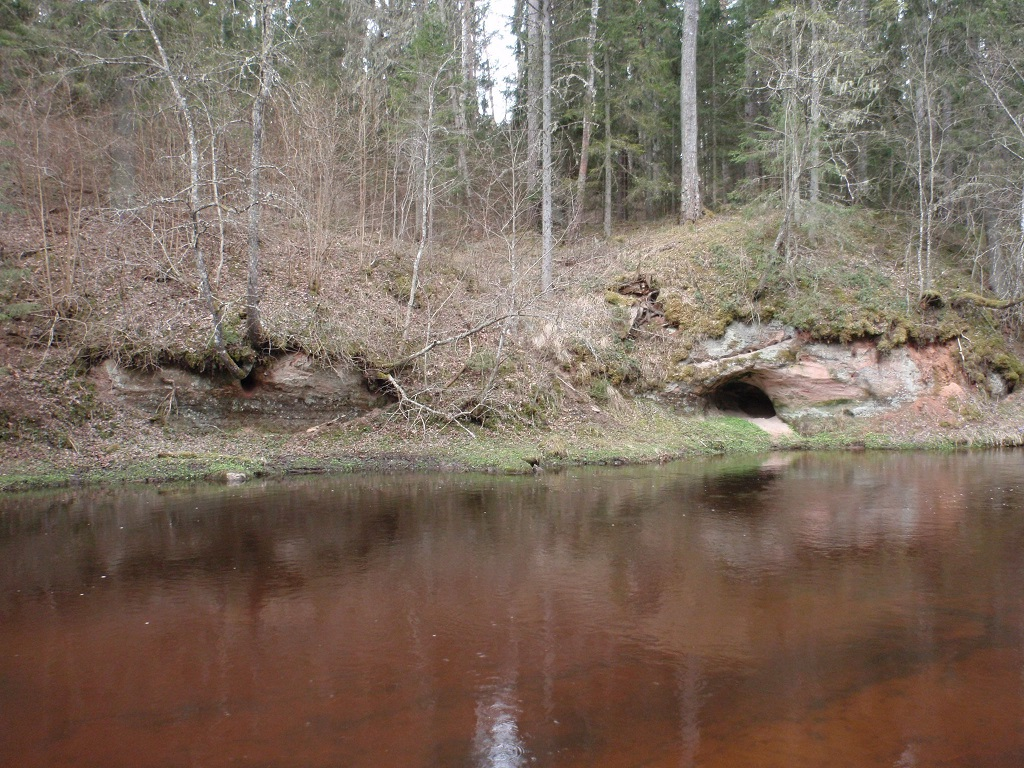 Koplipera koobas